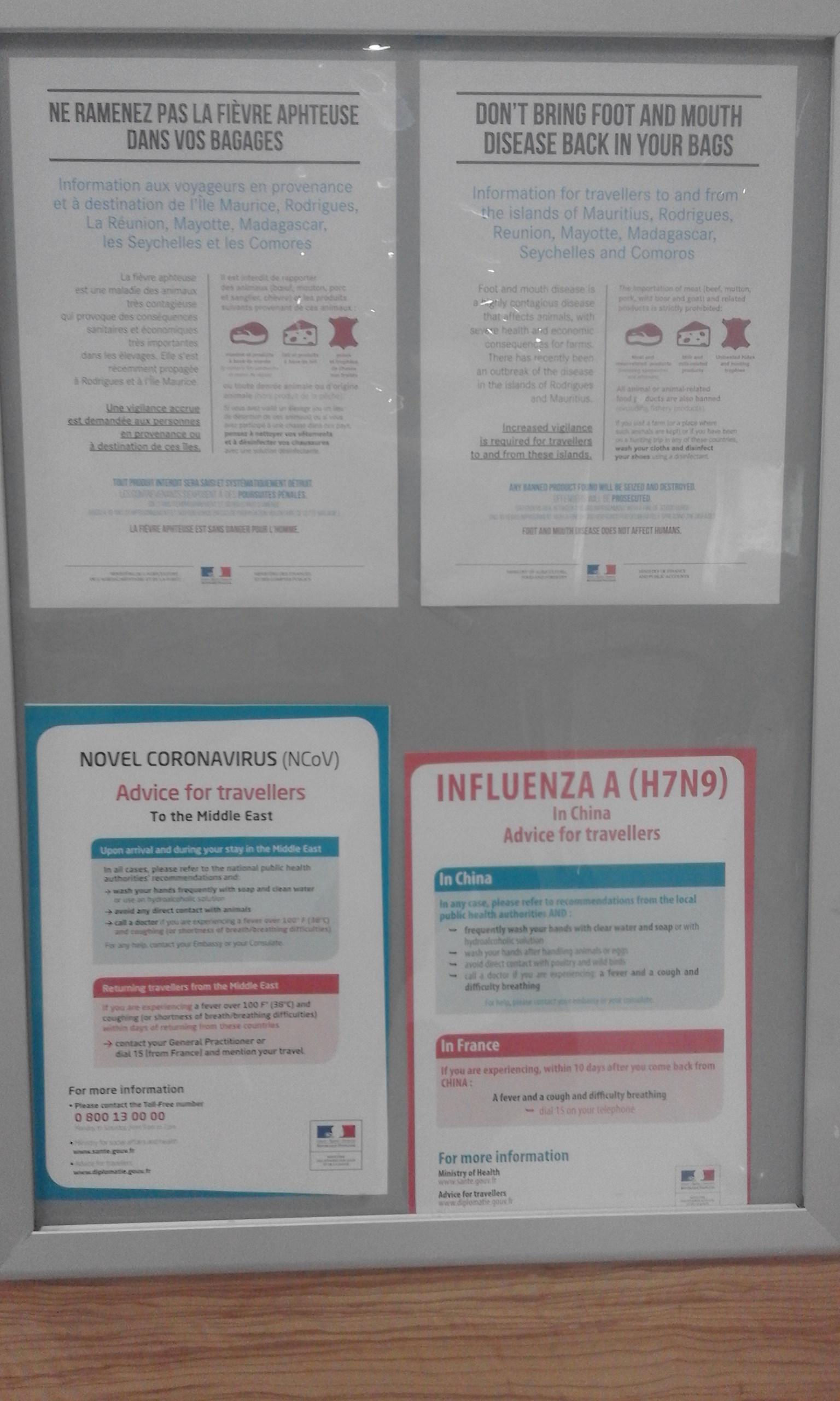 Posters warning about imported diseases in Charles de Gaulle Airport, Paris, France